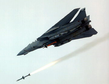 This image was downloaded from